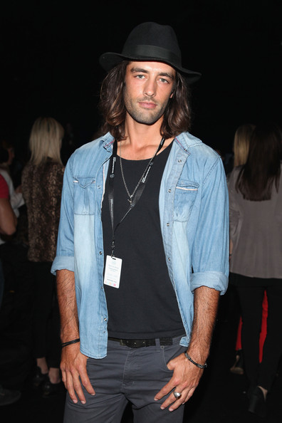 Jay Lyons at Mercedes-Benz fashion week 2012